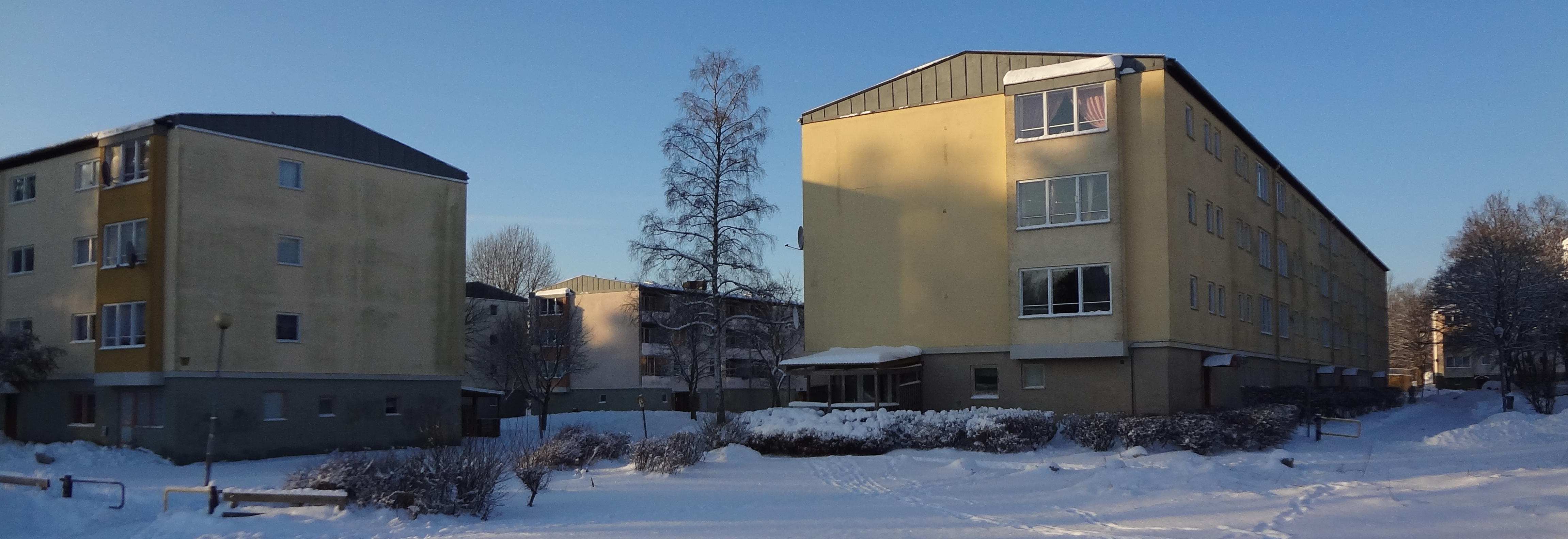 Råbergstorp, part of Eskilstuna